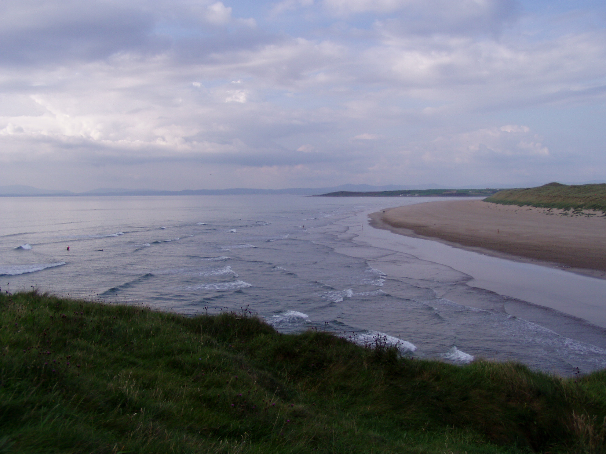 Beach and ocean near Bundoran. Co Donegal, Ireland.